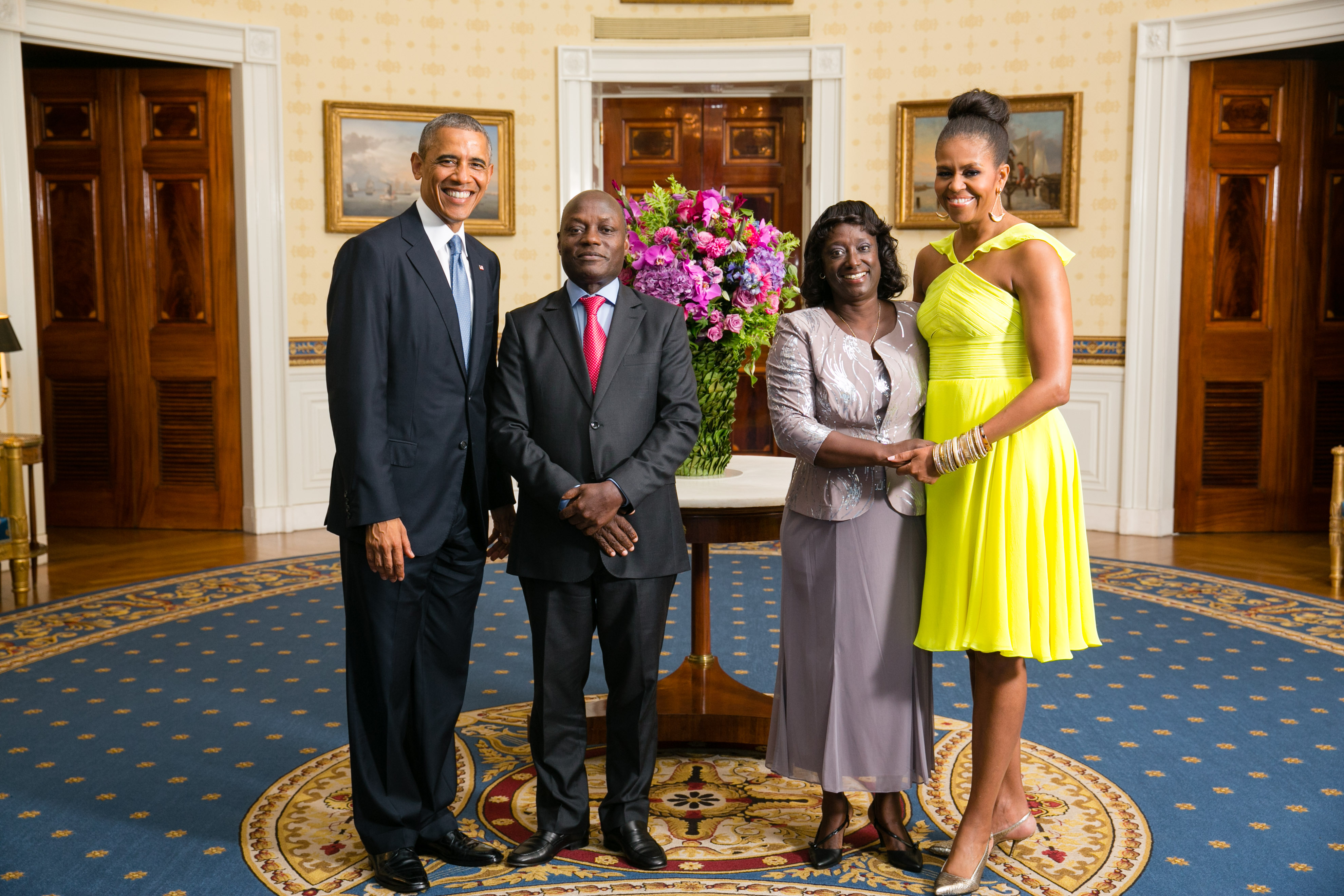 President Barack Obama and First Lady Michelle Obama greet His Excellency José Mário Vaz, President of the Republic of Guinea-Bissau, and Ms. Rosa Teixeira Goudiaby Vaz, in the Blue Room during a U.S.-Africa Leaders Summit dinner at the White House, Aug. 5, 2014. [Official White House Photo by Amanda Lucidon/ This official White House photograph is in the public domain from a copyright perspective, so while restrictions such as personality or privacy rights may apply, in general, manipulations are allowed.]